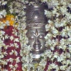 The picture was taken from Mathaganeri Temple. The Goddess name is Sriman Narayana Swamy.